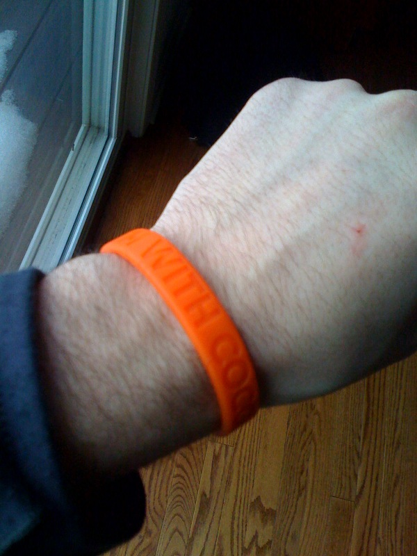 Posted via email from grantsewell's posterous